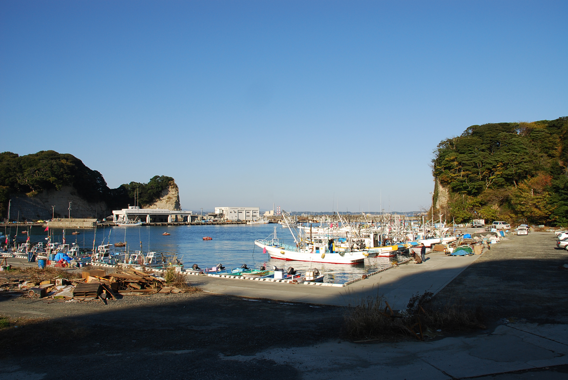 Hirakata fishing port in Kitaibaraki, Ibaraki pref., Japan.